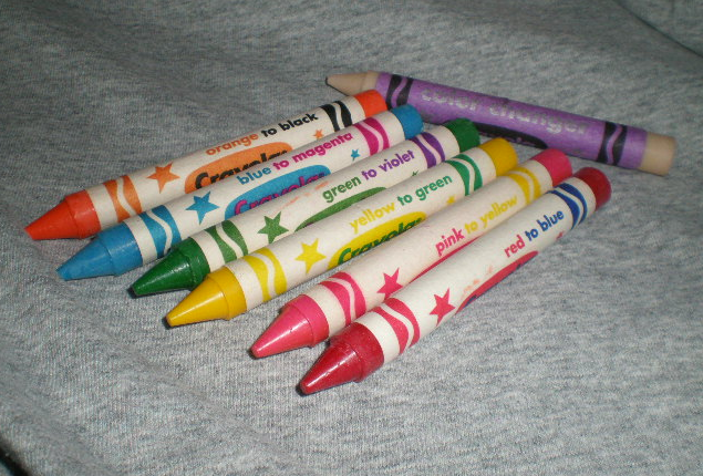 These are the Crayola Changeables crayons.